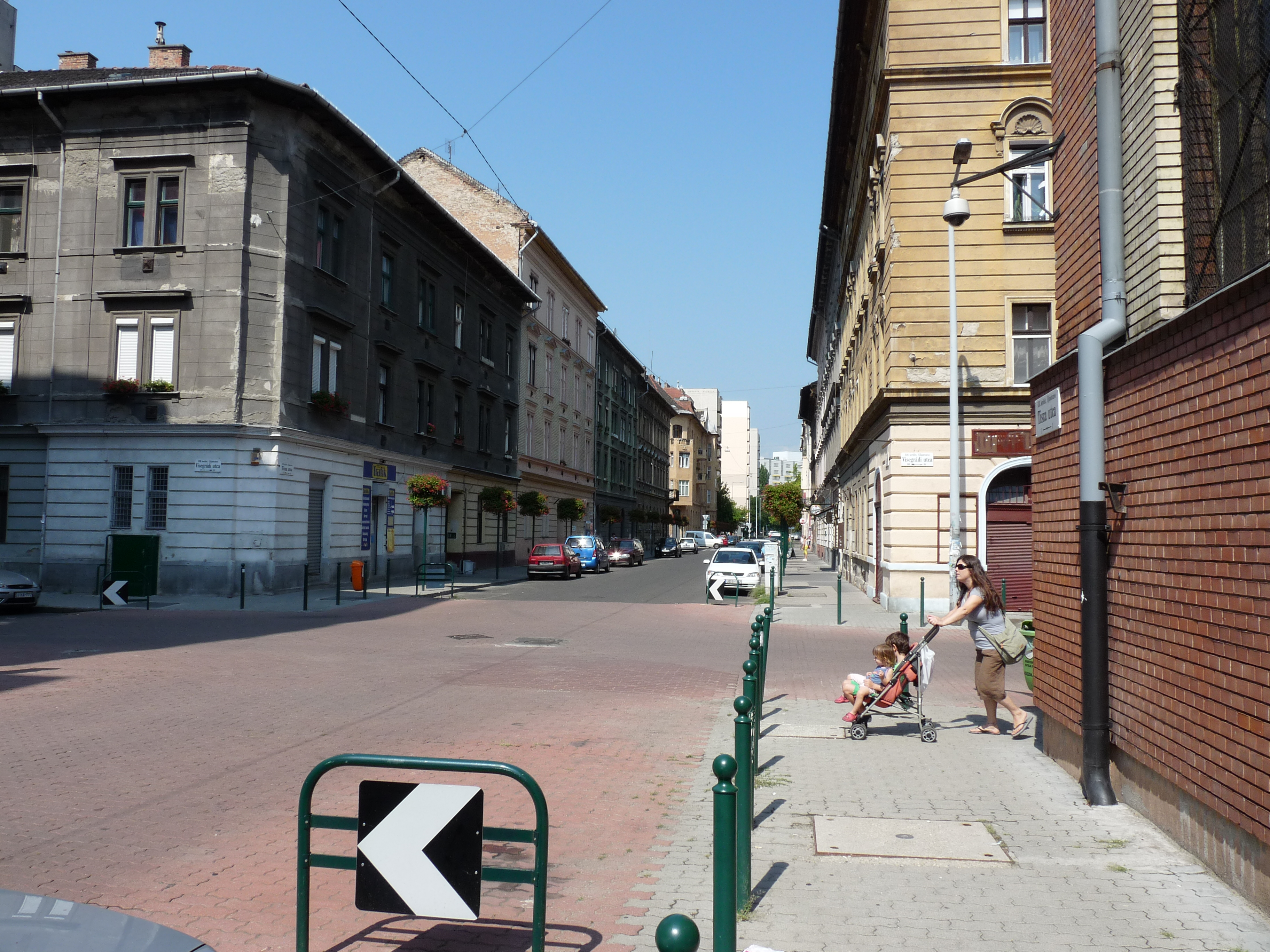 Tisza street in the Újlipótváros part of Budapest.